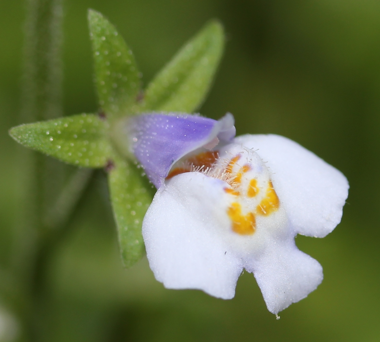 Flower of Japanese mazus (Mazus pumilus), in Japan.